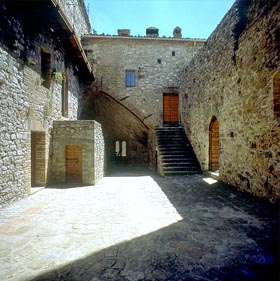 exterior of TodiCastle